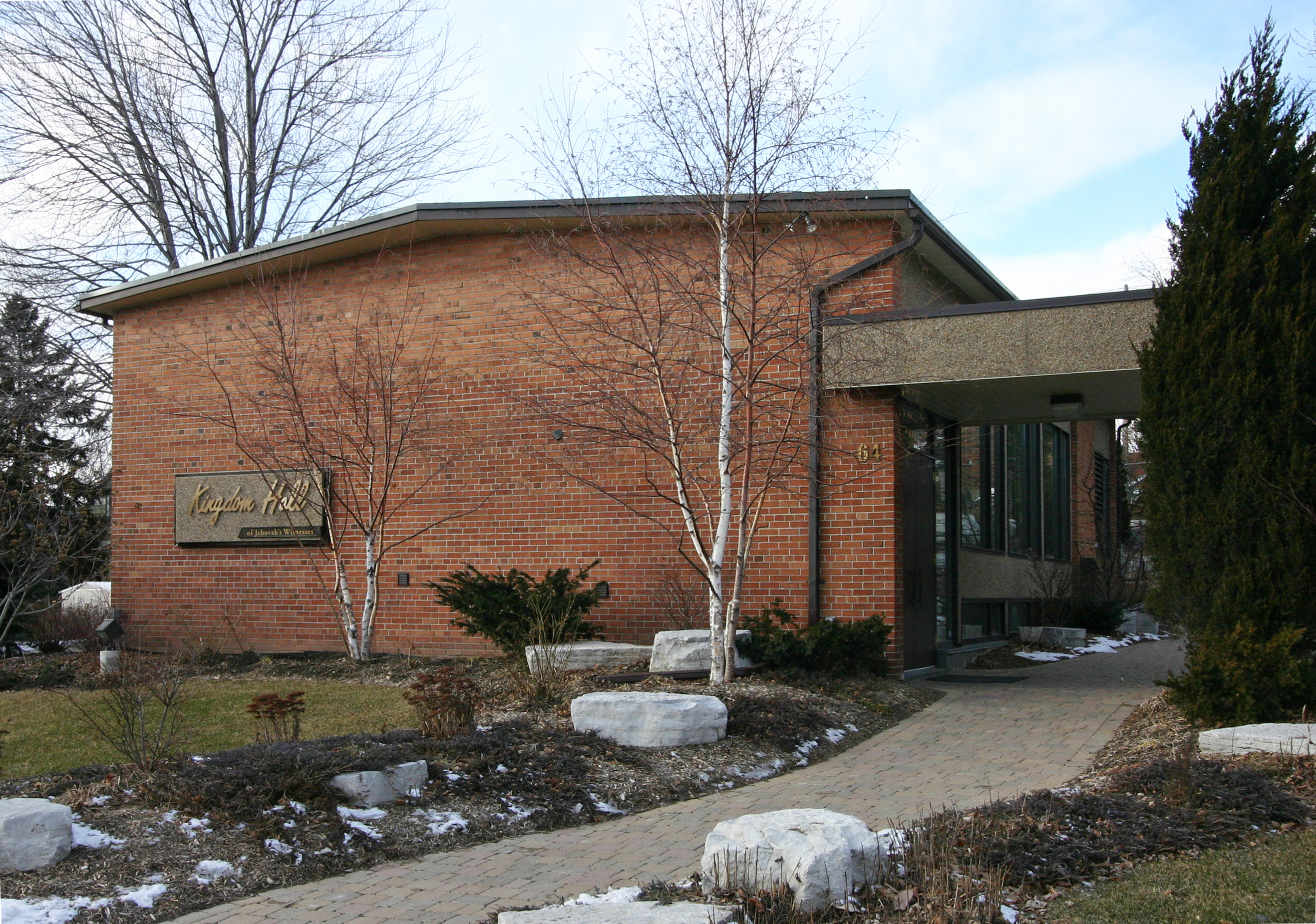 Salón del reino, Testigos de Jehova, from English Wikipedia. Original summary: Kingdom Hall of Jehovah's Witnesses in Toronto.